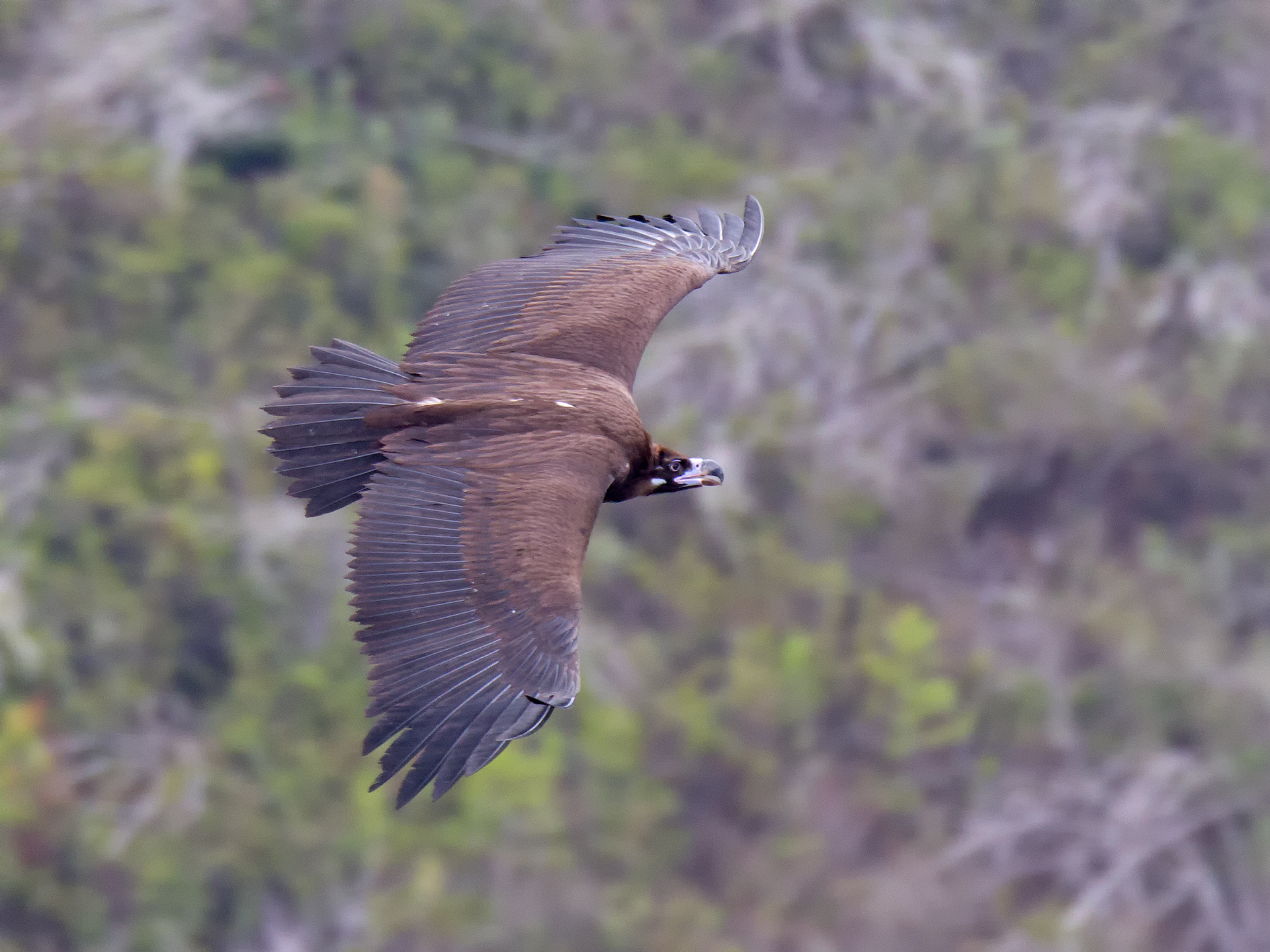 Cinereous vulture in flight over Carmel mountain in Israel